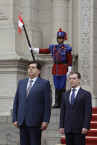 LIMA, PERU. Official welcoming ceremony. With President of Peru Alan García Pérez